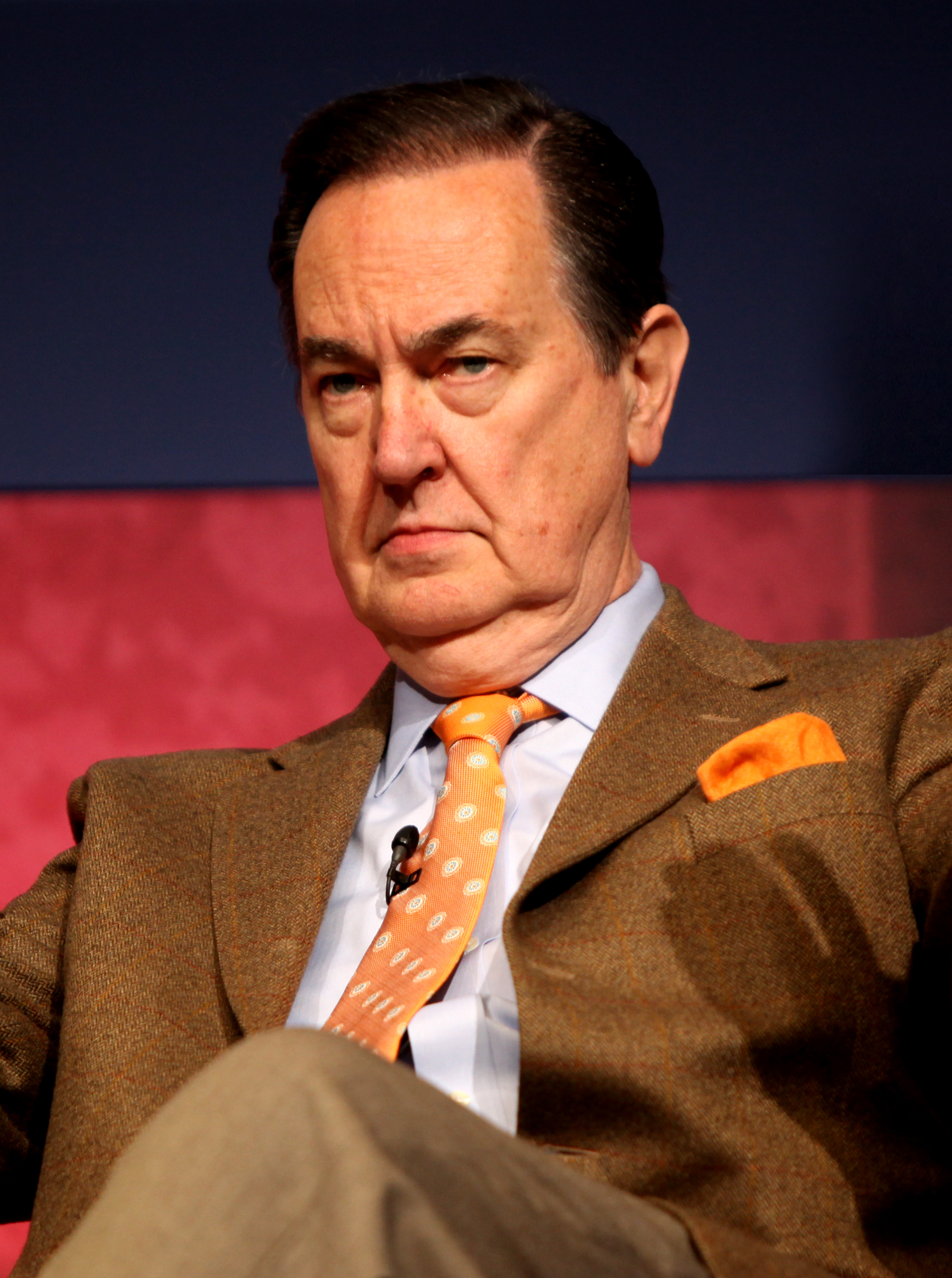 Cal Thomas speaking at CPAC in Washington D.C. on February 10, 2012.